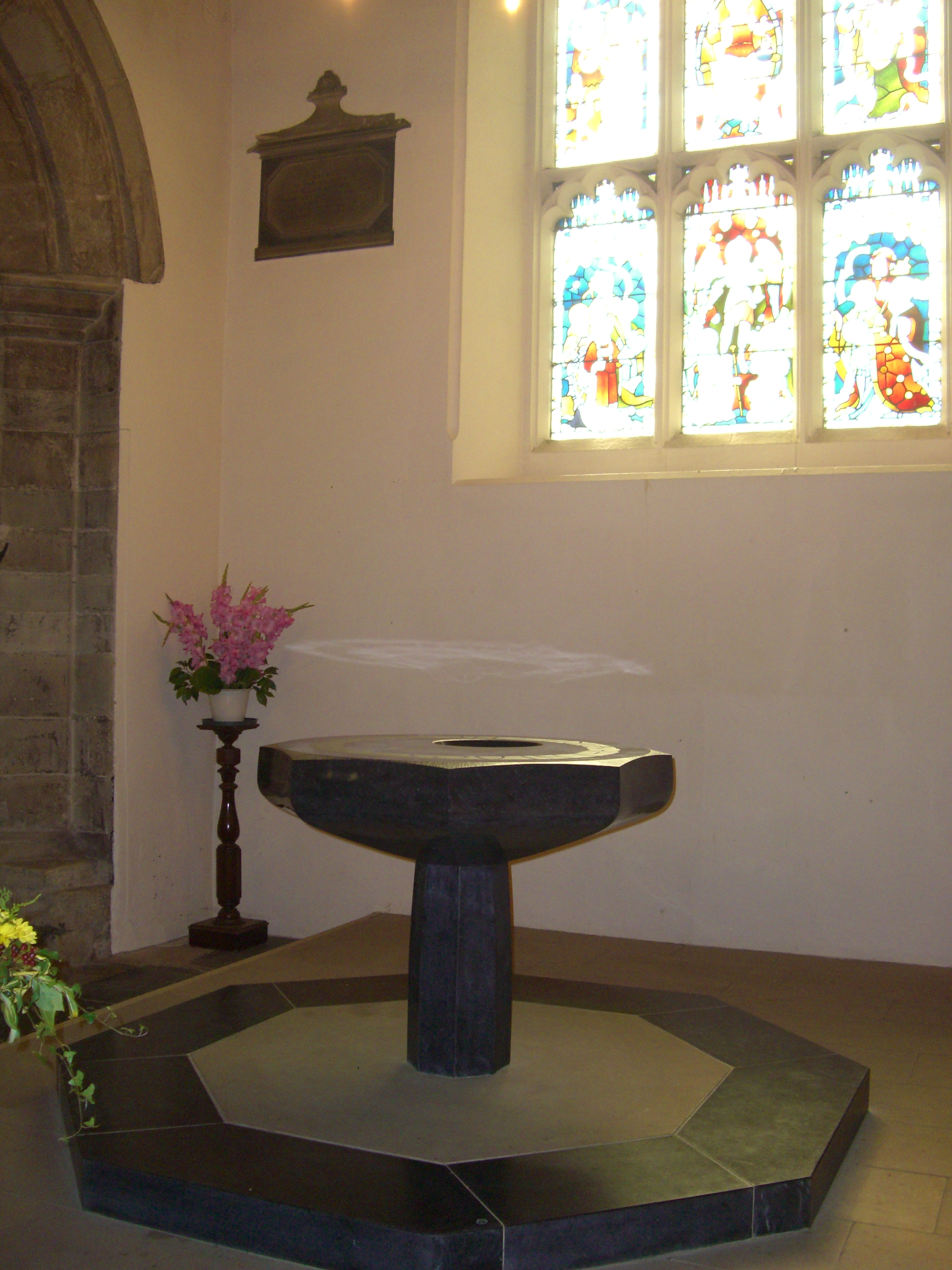 The modern font (2000) at St Michael's church in Alnwick, Northumberland, England